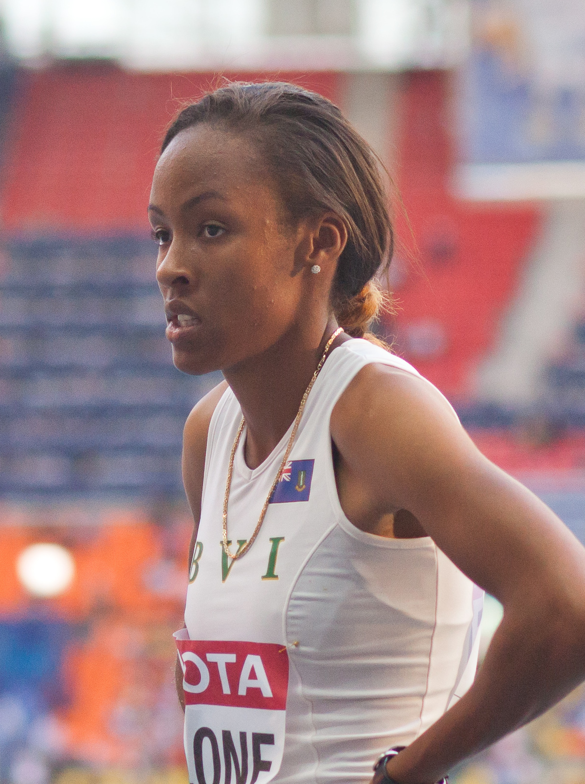 Chantel Malone during 2013 World Championships in Athletics in Moscow.